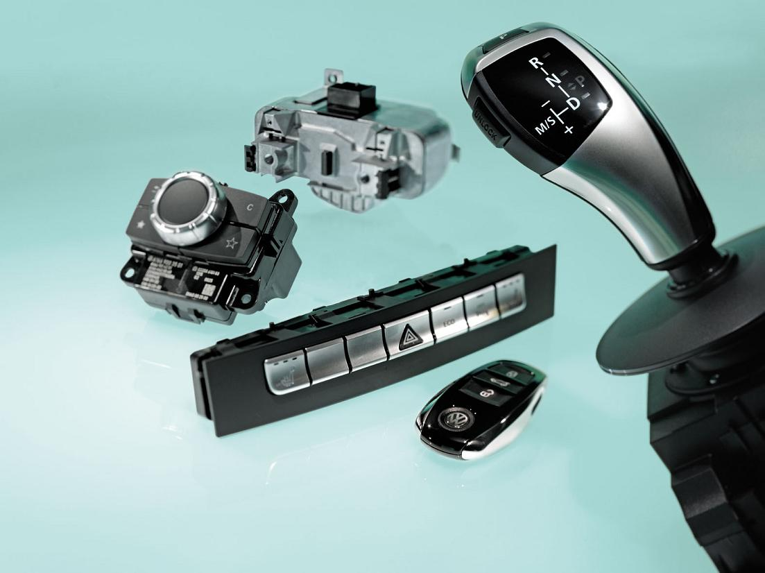 Drivingautorisation- and Controlcomponents